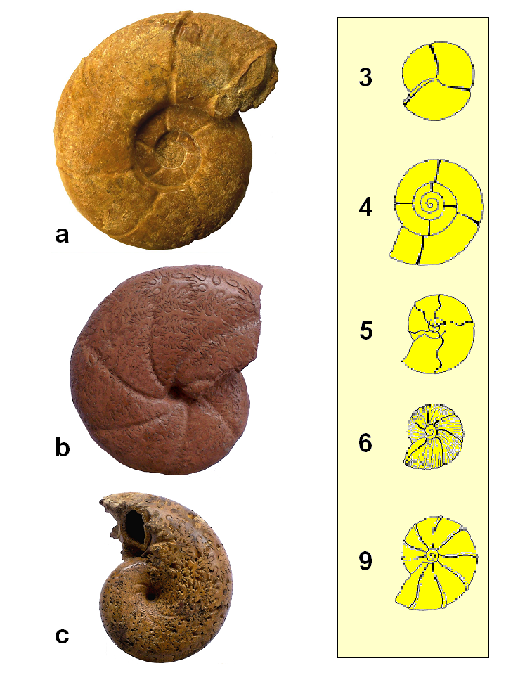 examples of growthlines in ammonites. Left: real examples; a) Puzosia (Cretaceous); b) Calliphylloceras (Early Jurassic); c) Ptychophylloceras (Late Jurassic. Right: schematic examples of ammonites with different number of growthlines per whorl.